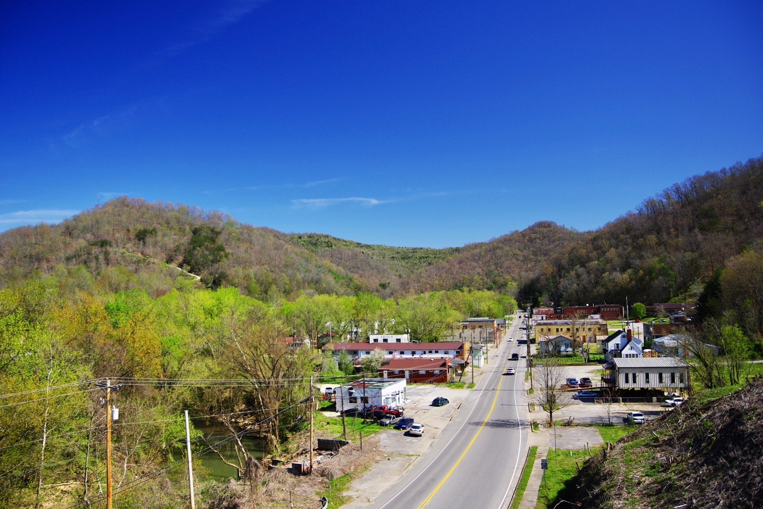 Main Street (Kentucky Route 1428) in Martin, Kentucky, United States.